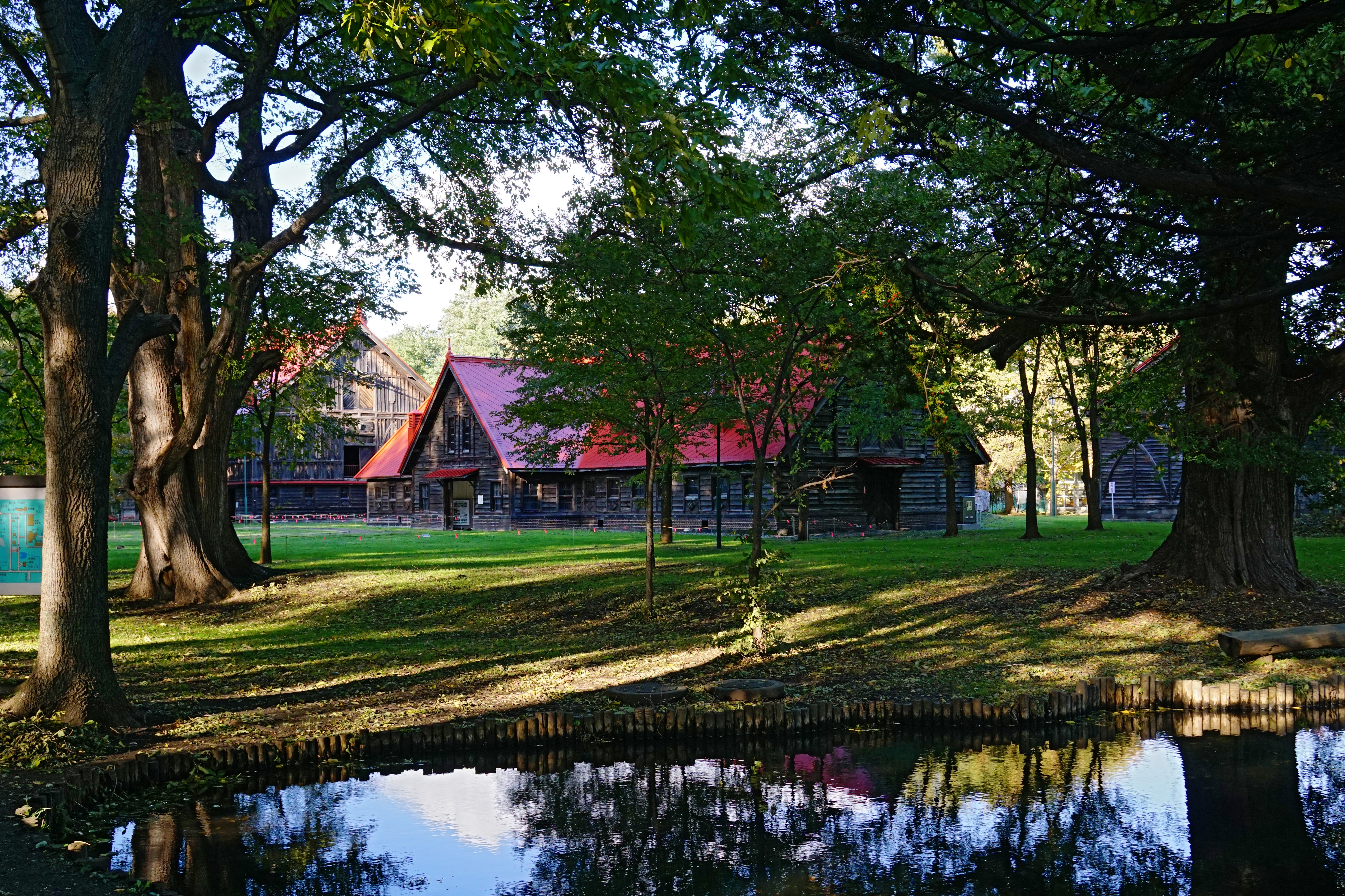 Sapporo Agricultural College 2nd farm at Hokkaido University in Sapporo Hokkaido prefecture, Japan.